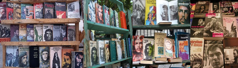 Photos of Che Guevara books for sale